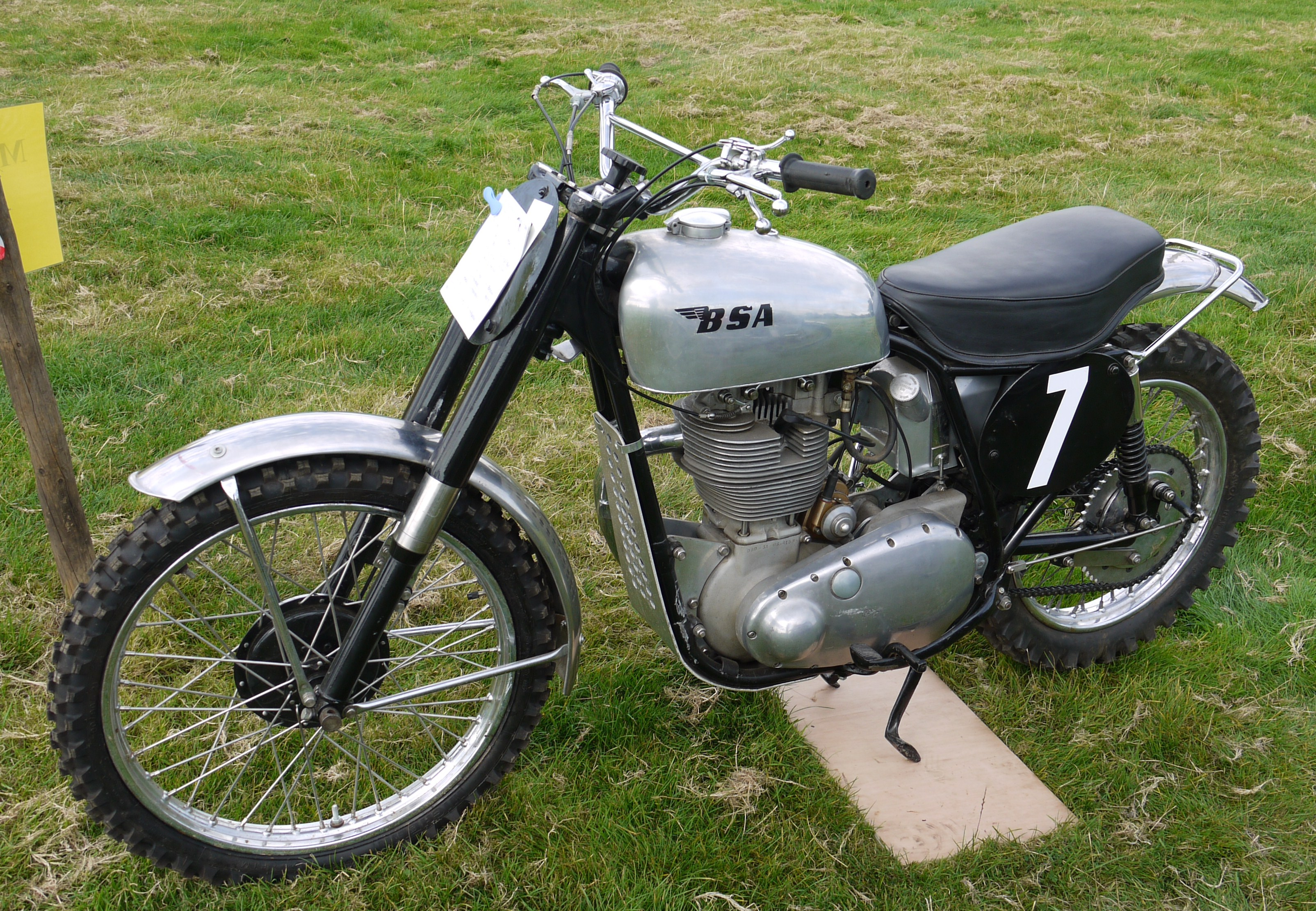 A BSA Motocross Bike from the 60's